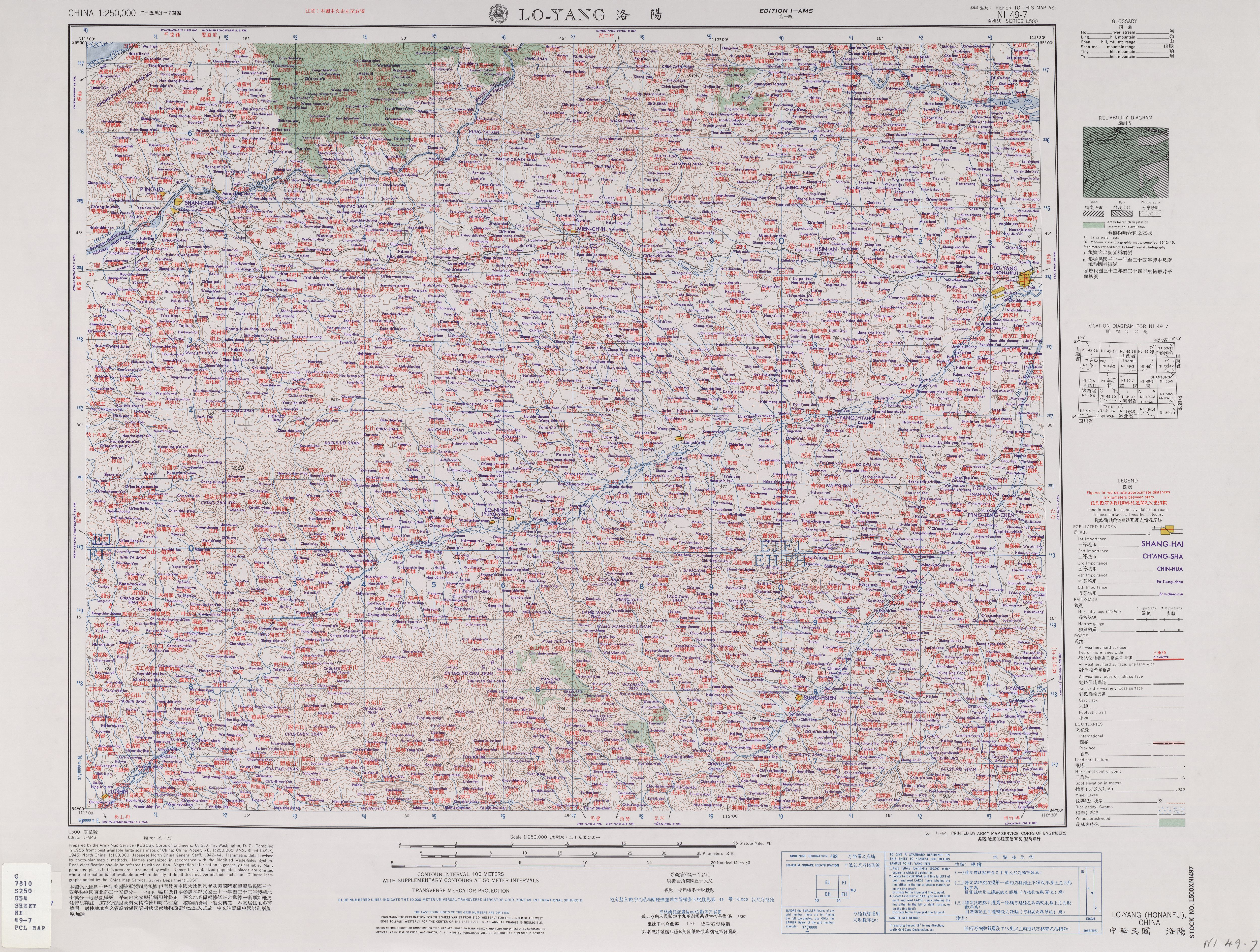 China AMS Topographic Maps